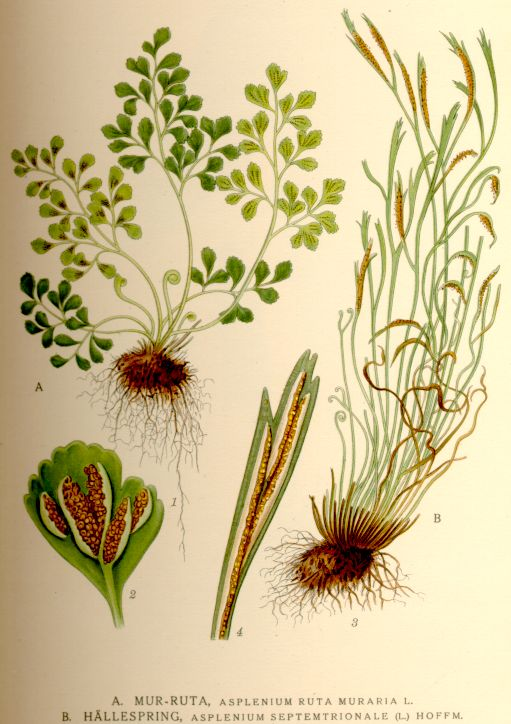 Asplenium ruta-muraria and Asplenium septentrionale